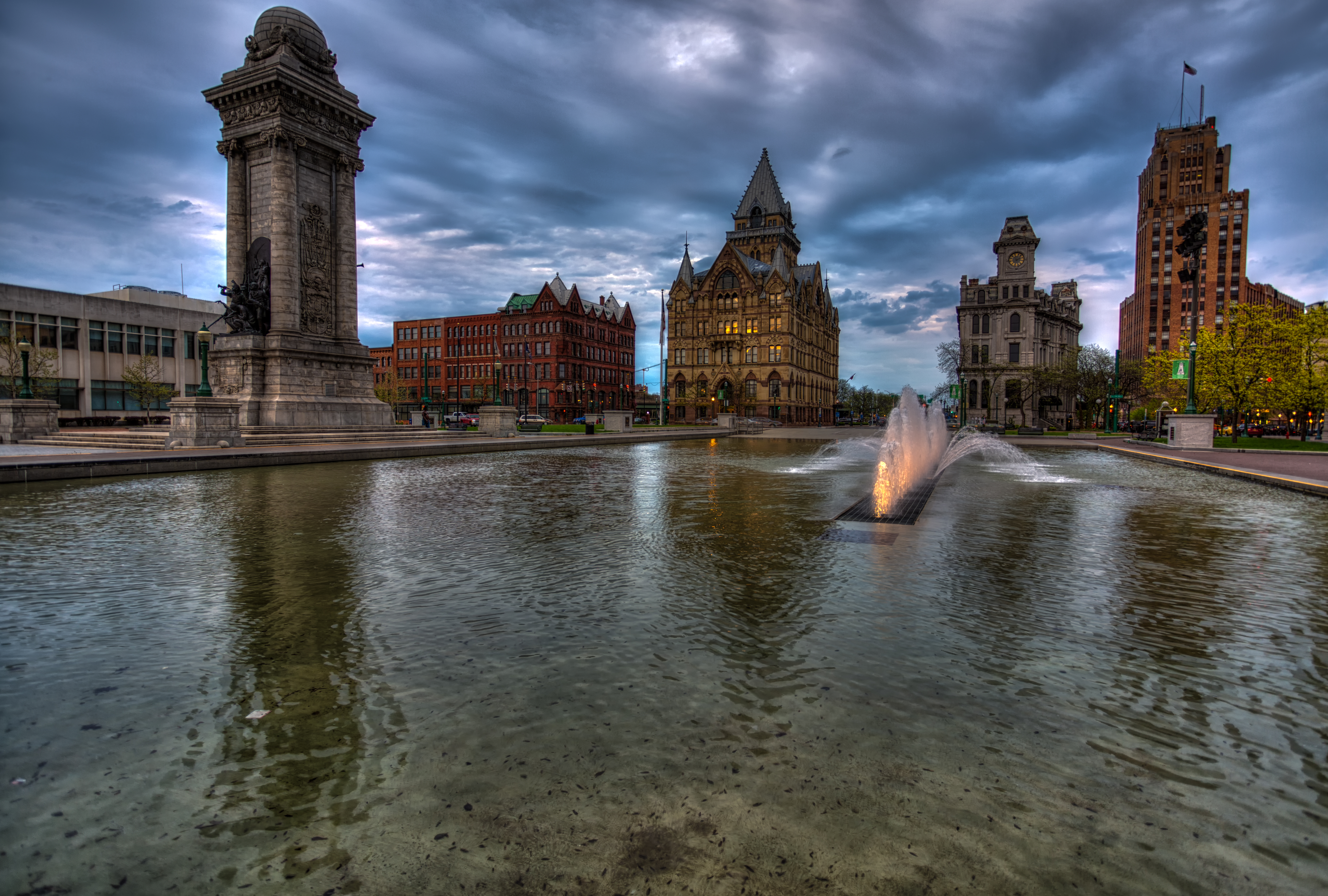 Syracuse, NY